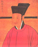 Emperor Qinzong of the Song Dynasty